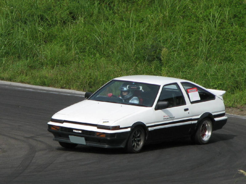 Toyota AE86(Sprinter Trueno) running in a car racing circuit.